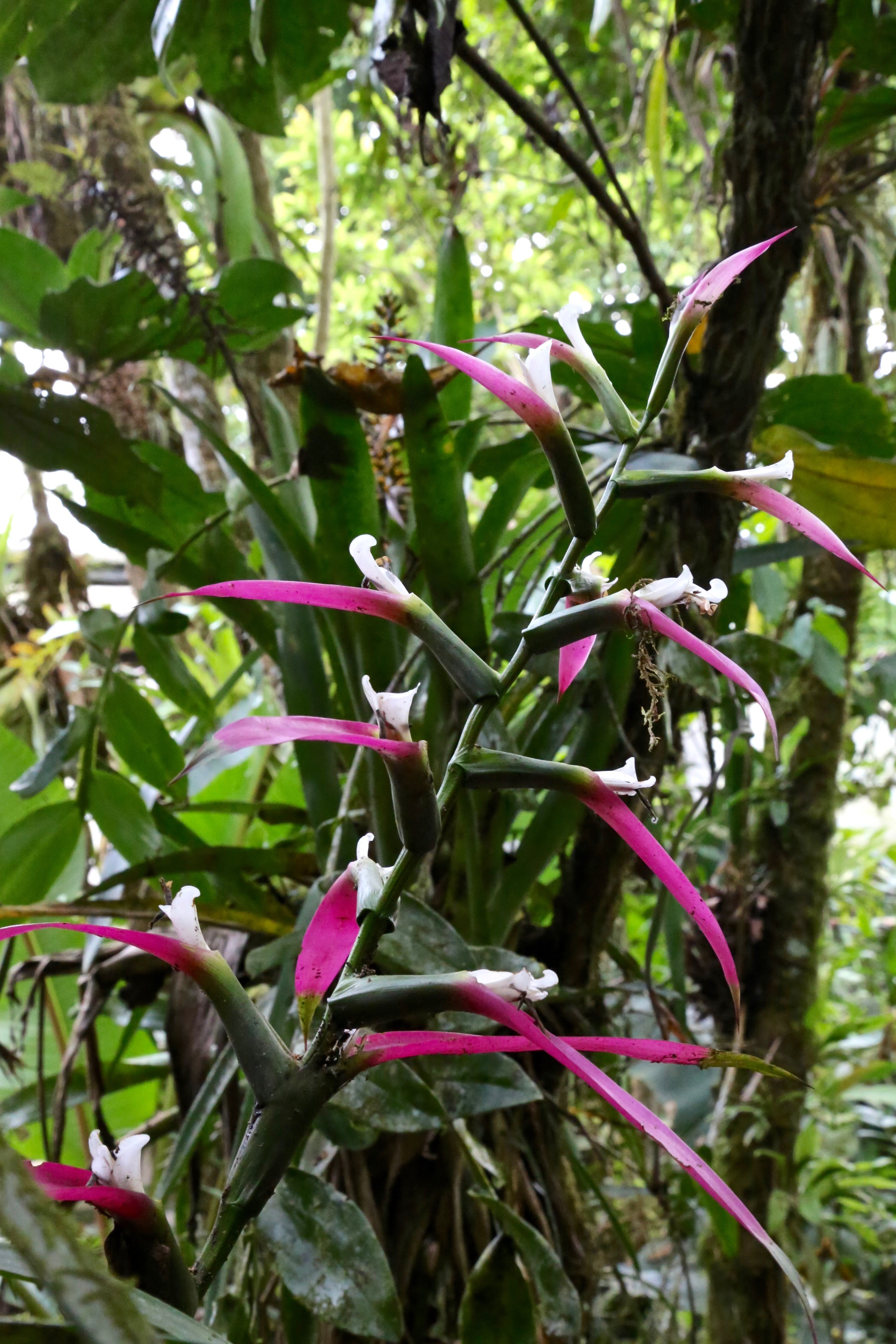 Ecuador, Pichincha province, Mindo cloud forest